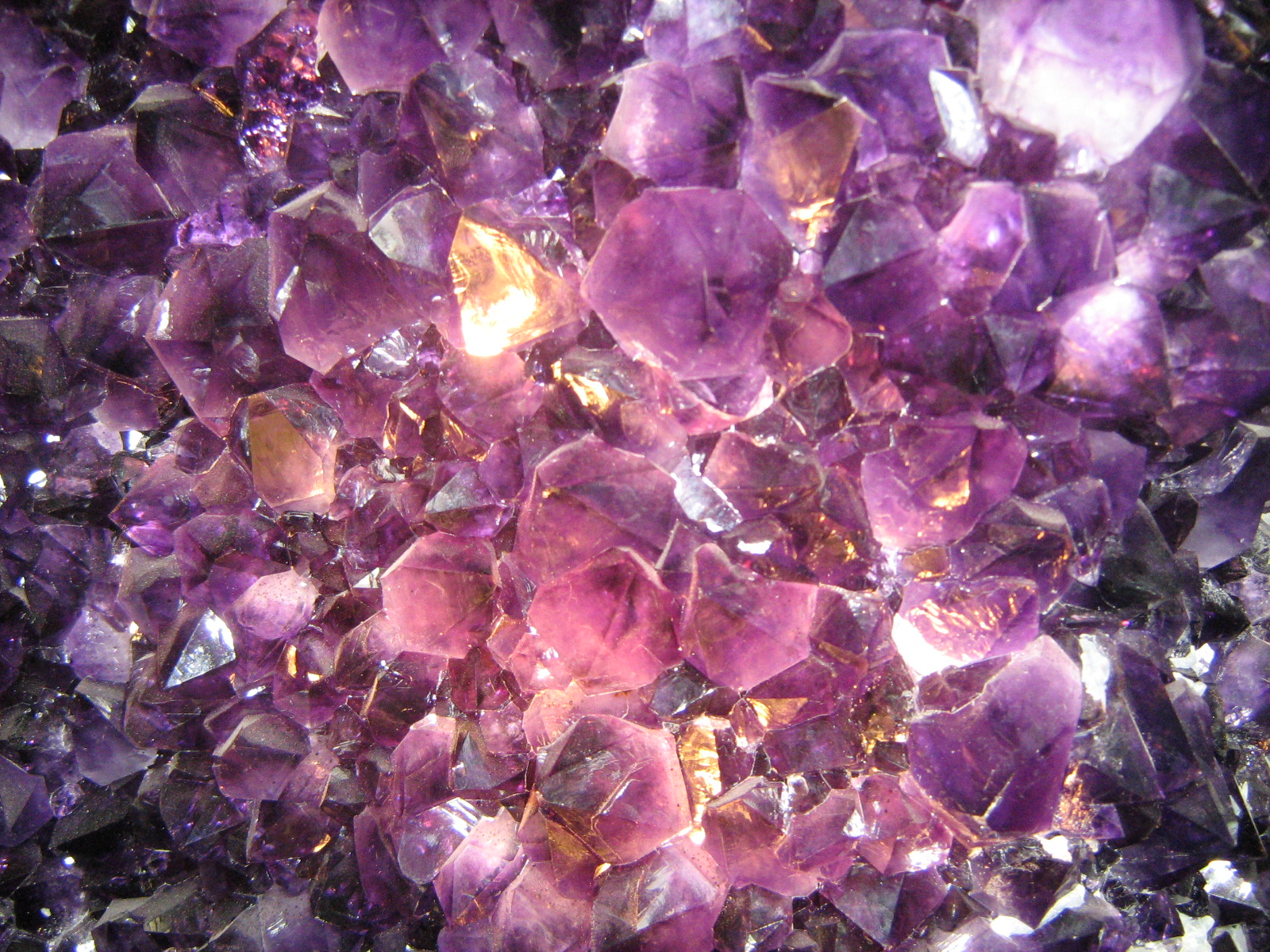 Amethyst at Fersman Museum